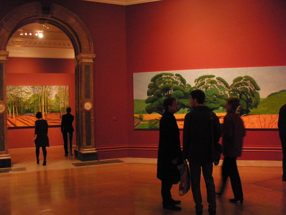 David Hockney exhibition at the Royal Academy of Arts in London, January 2012.